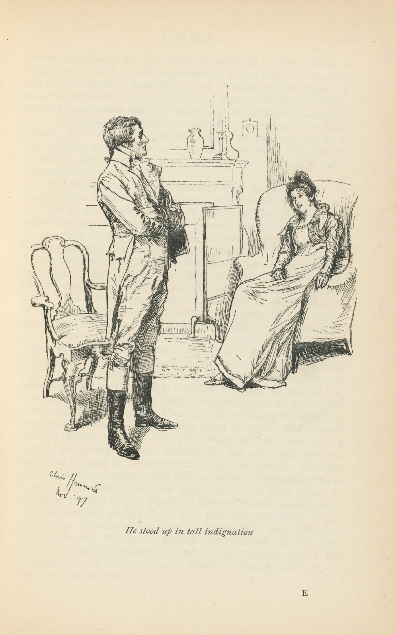 "He stood up in tall indignation" - an illustration by Chris Hammond of an 1898 edition of the novel Emma by Jane Austen (1775-1817). Houghton Typ 805.98.1770, Houghton Library, Harvard University